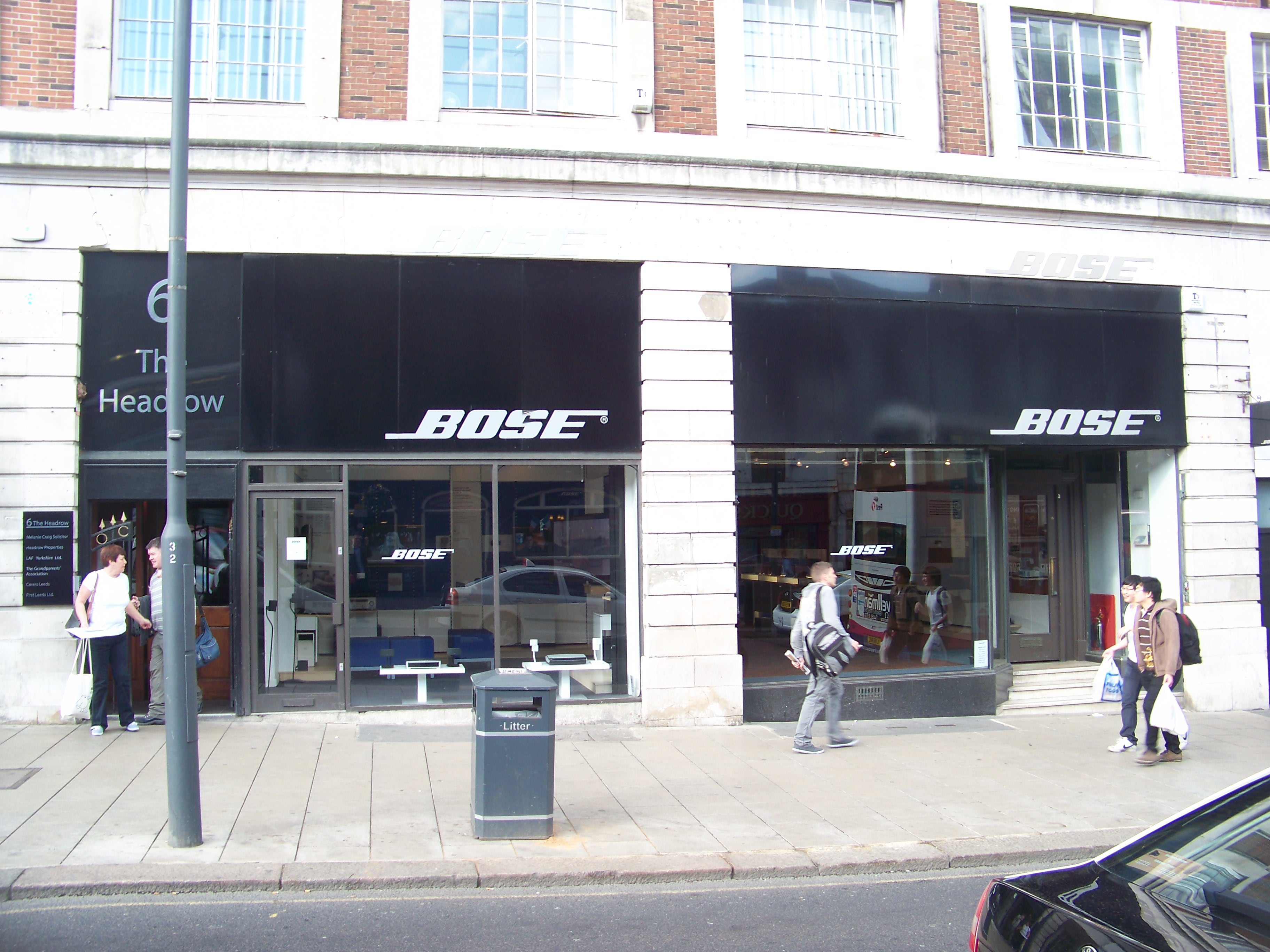 Bose shop, The Headrow, Leeds. Taken on the afternoon of Monday the 11th of April 2011.